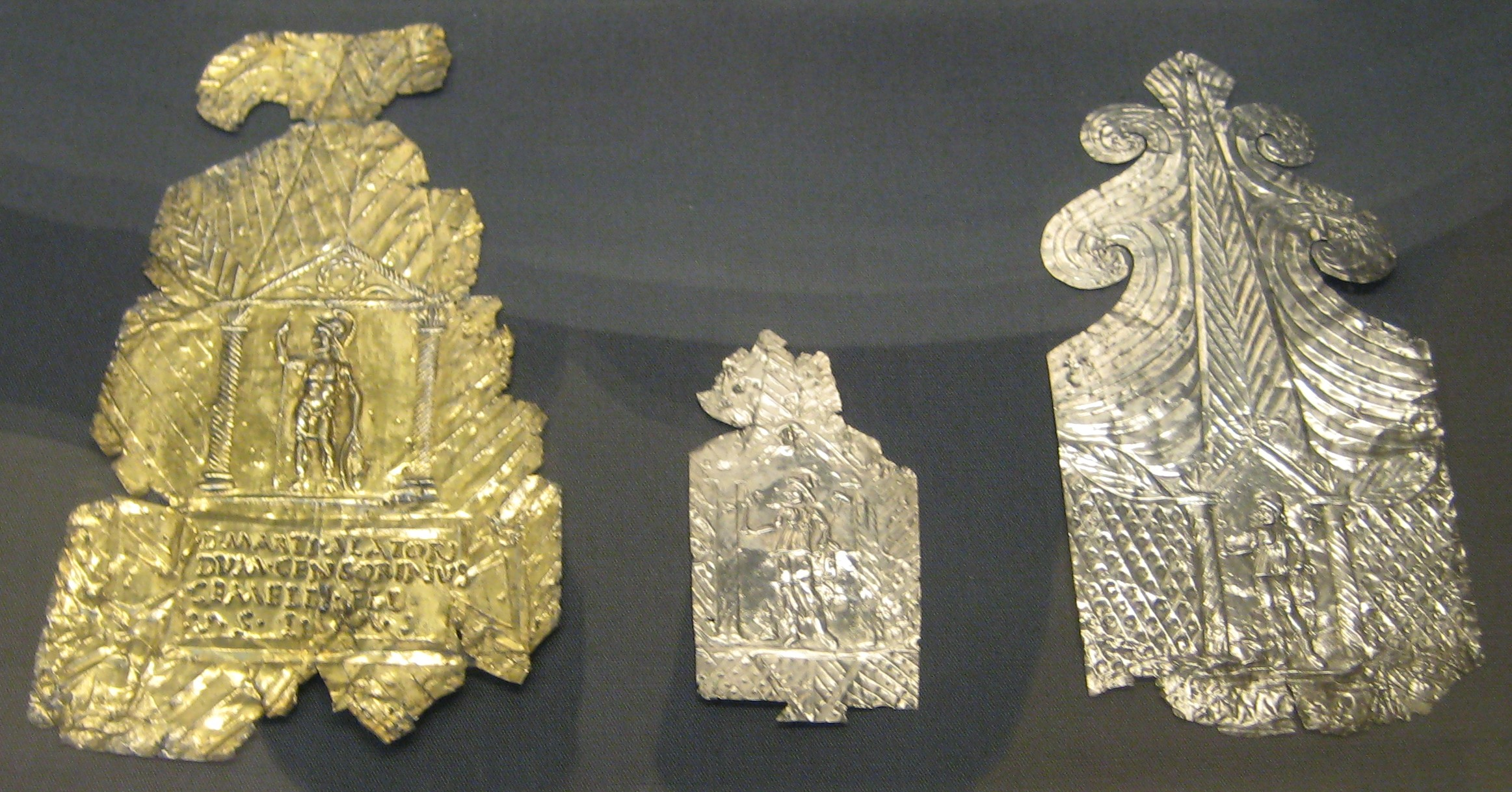 Silver-gilt votavive plaque dedicated to Mars RIB 1, 218: D(eo) Marti Alatori/ Dum(?) Censorinus/ Gemelli fil(ius)/ v(otum) s(olvit) l(ibens) m(erito) , and two silver votive plaques dedicated to Vulcan, from a temple hoard that was found about 1743.